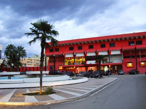 The facade of Stadiumi Flamurtari after the reconstruction.